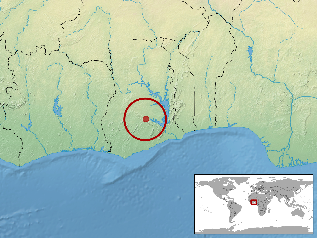 geographic distribution of Cynisca kraussi (Native: Ghana)